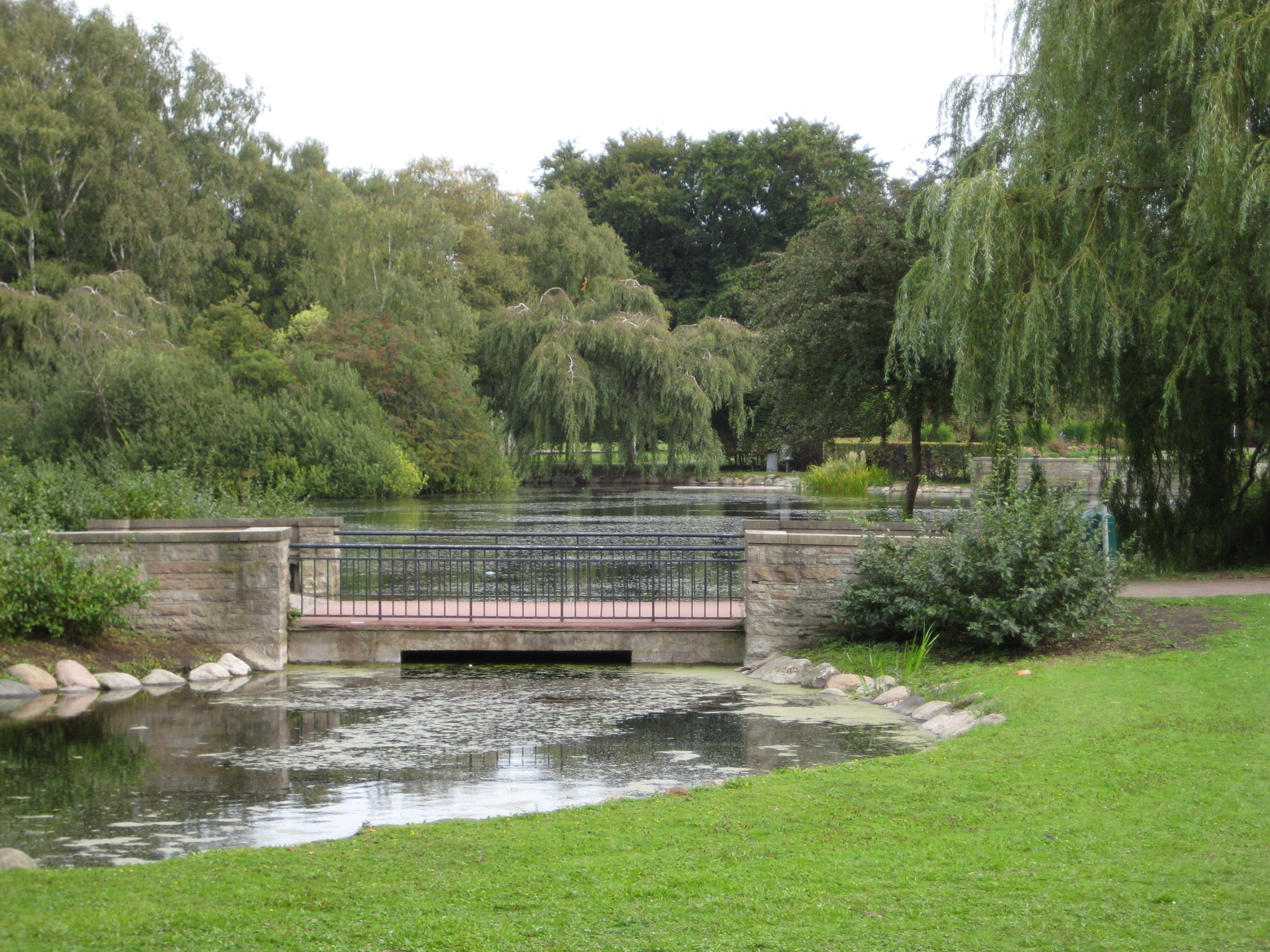 The small pond